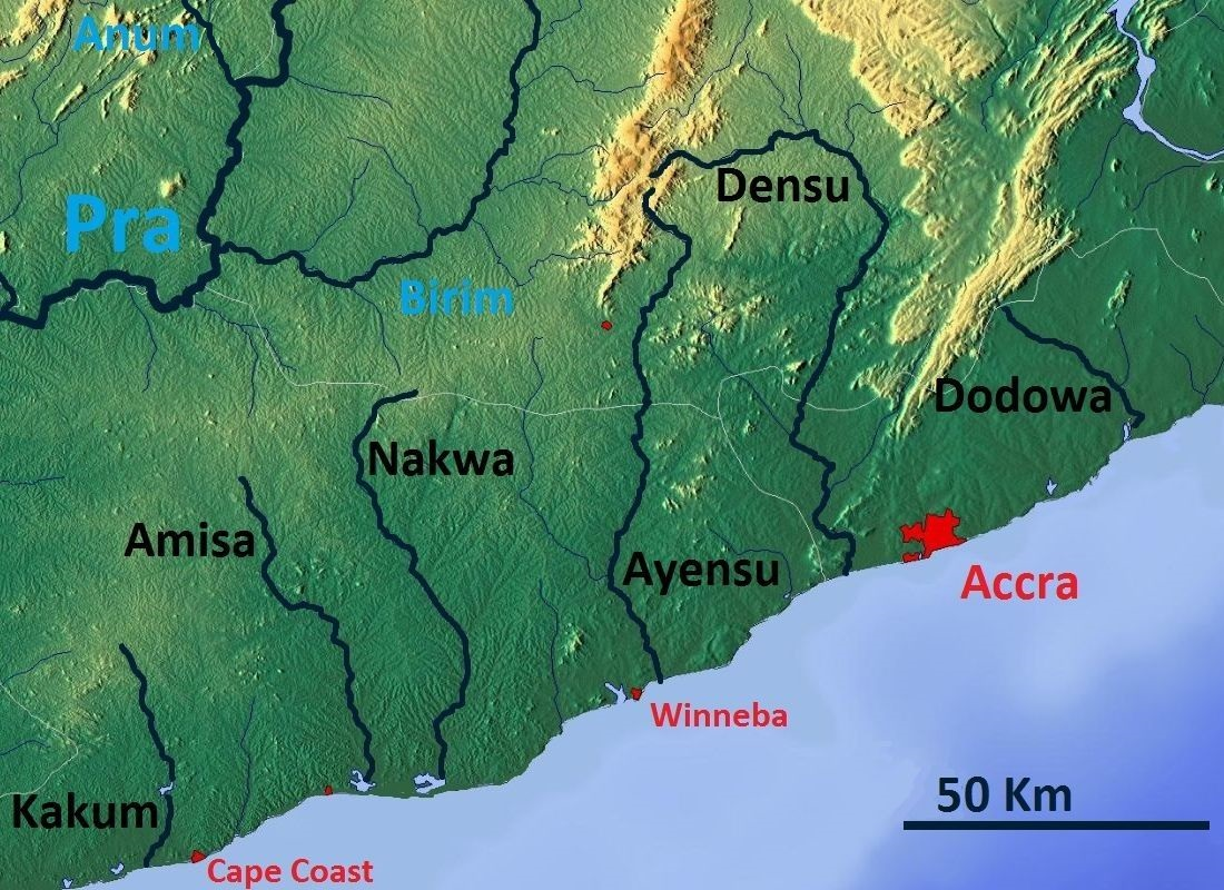 Coastel rivers of Ghana